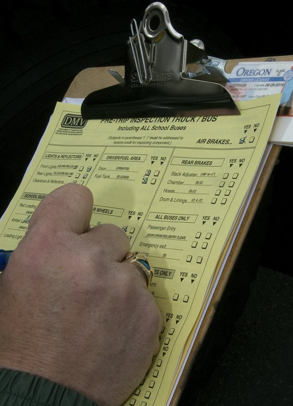 The pre-trip checklist.